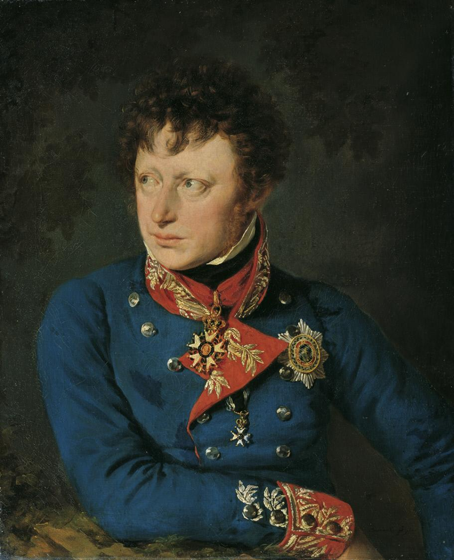 General Clemens von Raglovich (1766–1836), Kingdom of Bavaria